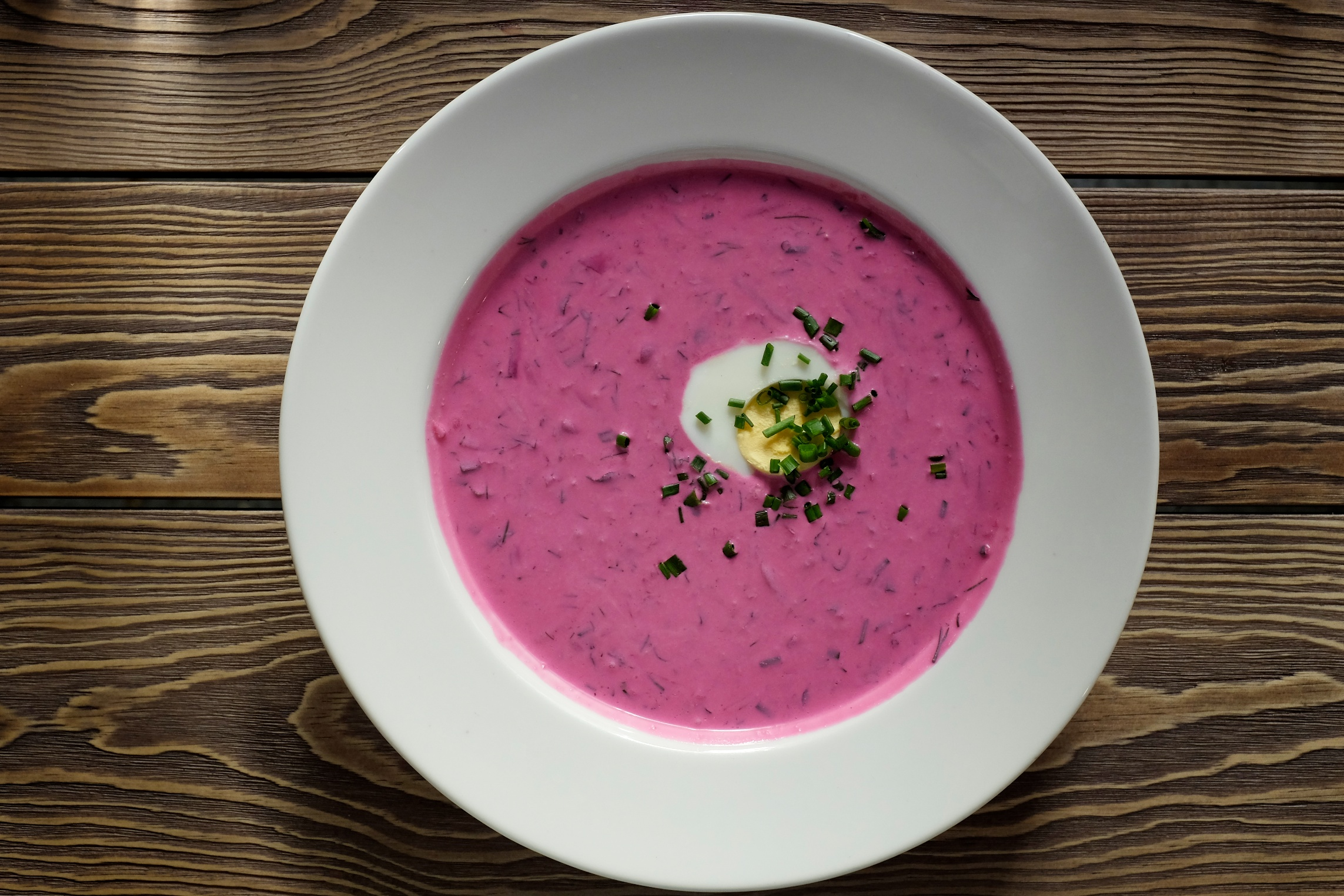 Chlodnik (Polish version of cold borscht) as served at a restaurant in Poznan, Poland.